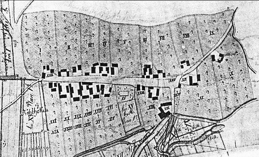 Boundarys of Gömnigk in 1824 (part of map B). The village Gömnigk is a part of the town Brück in the district Potsdam Mittelmark, state Brandenburg, Germany, at the border to the natural preserve Naturpark Hoher Fläming.